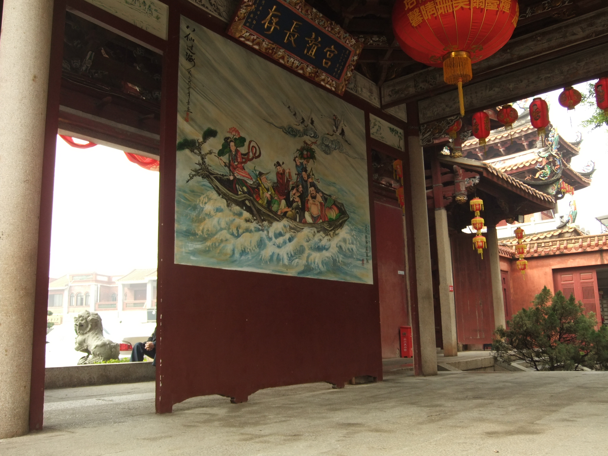 Tian Hou Gong ("Heavenly Empress' Palace"), i.e. a temple of Mazu, in downtown Quanzhou. It has an ancient bixi turtle with an illegible tablet.